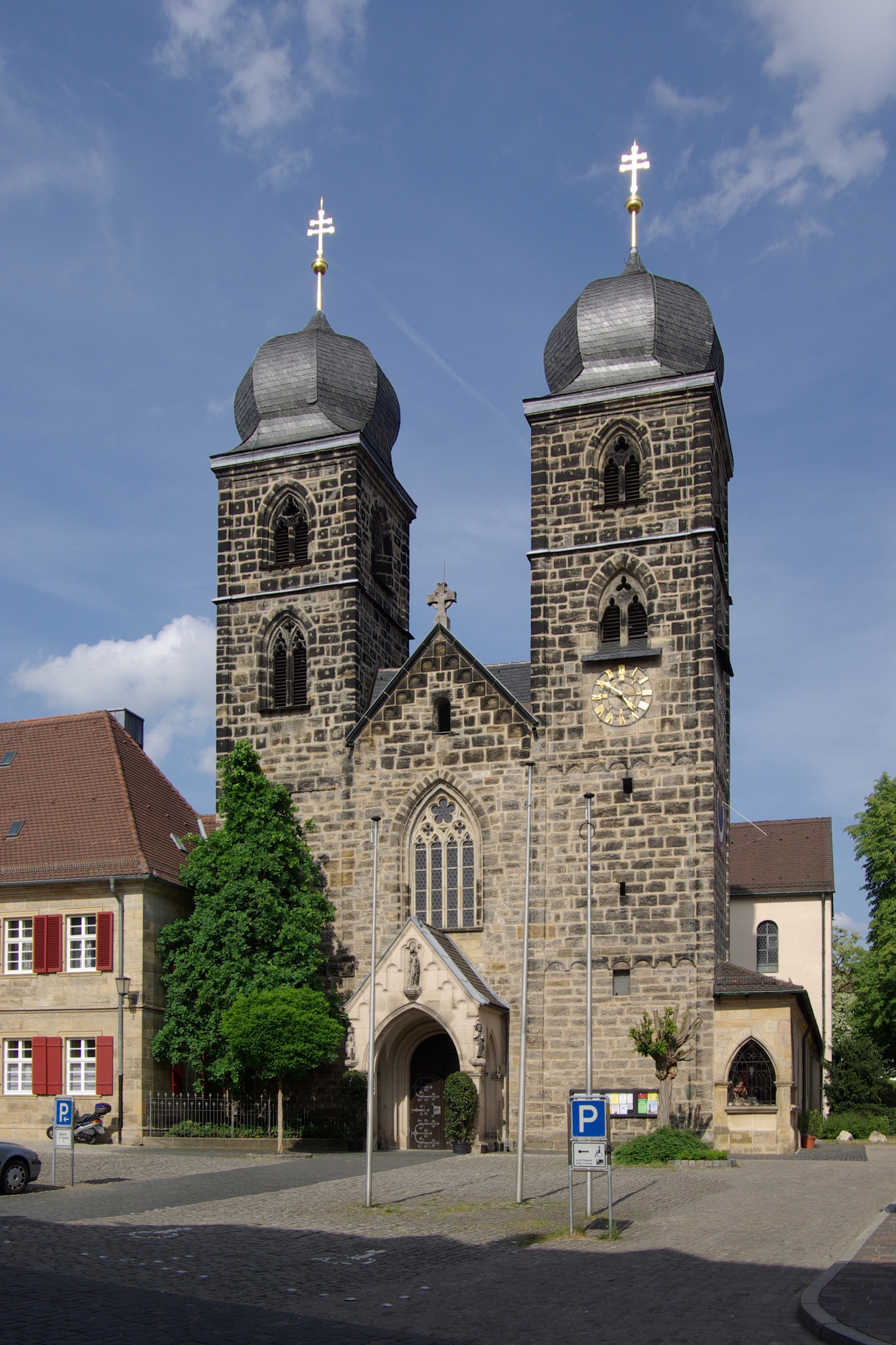 Germany, Bamberg, St. Gangolf church